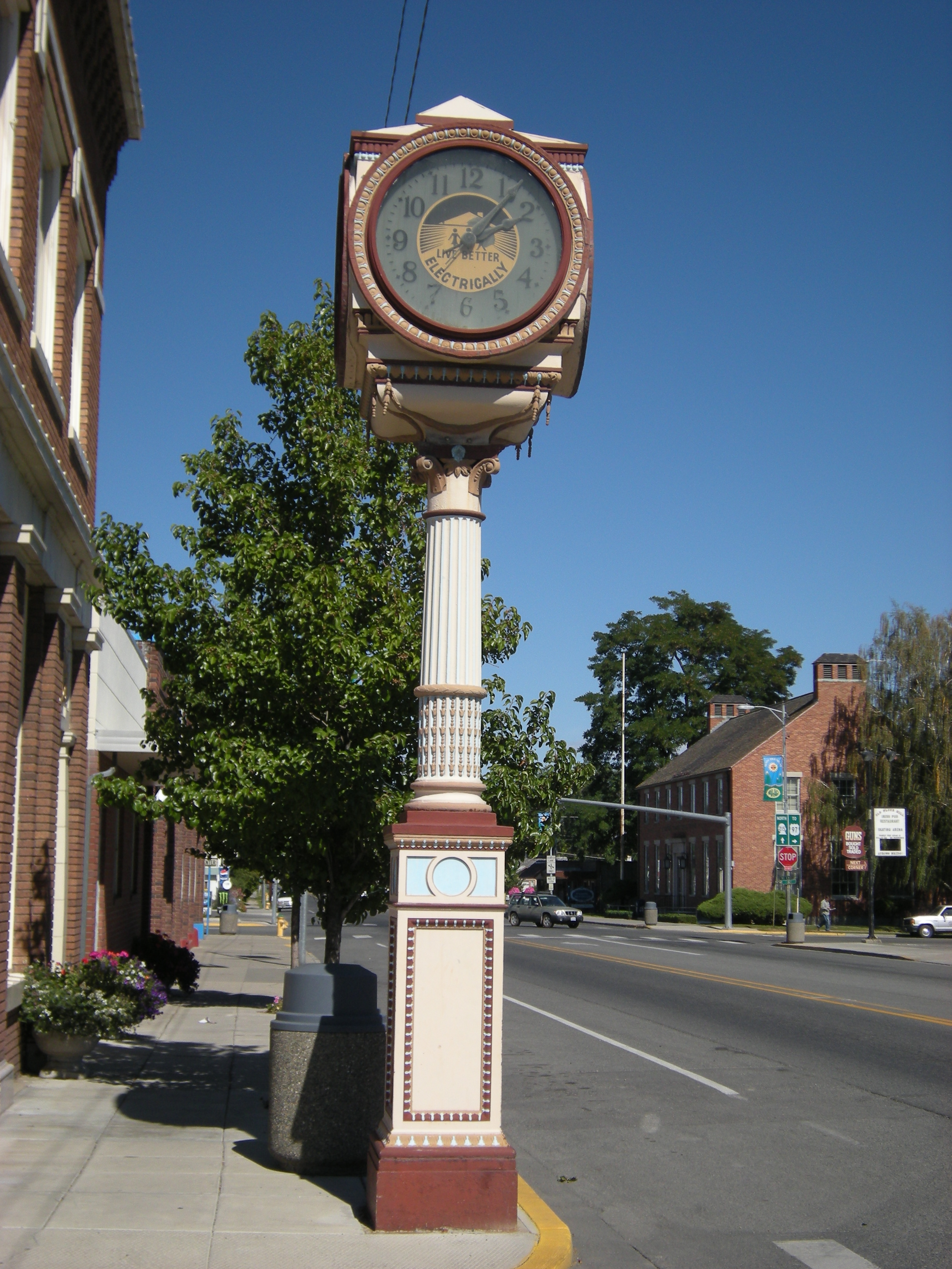 Street clock in front of the Commercial Building on Main Street, Okanogan, Washington. In the background at left is the post office, which is listed on the National Register of Historic Places.